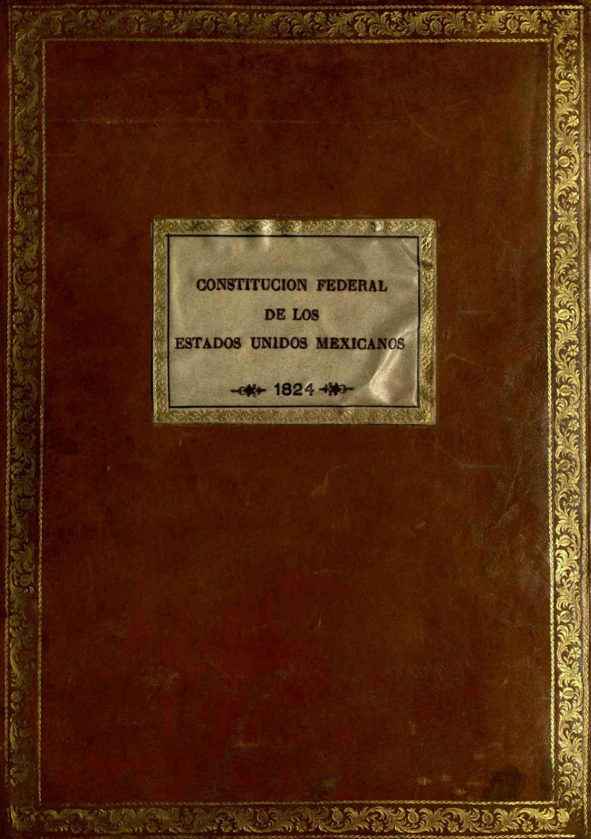 Original Cover of the Federal Constitution of the United Mexican States of 1824